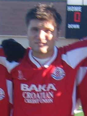 Domagoj Sain in 2005 with Toronto Croatia.